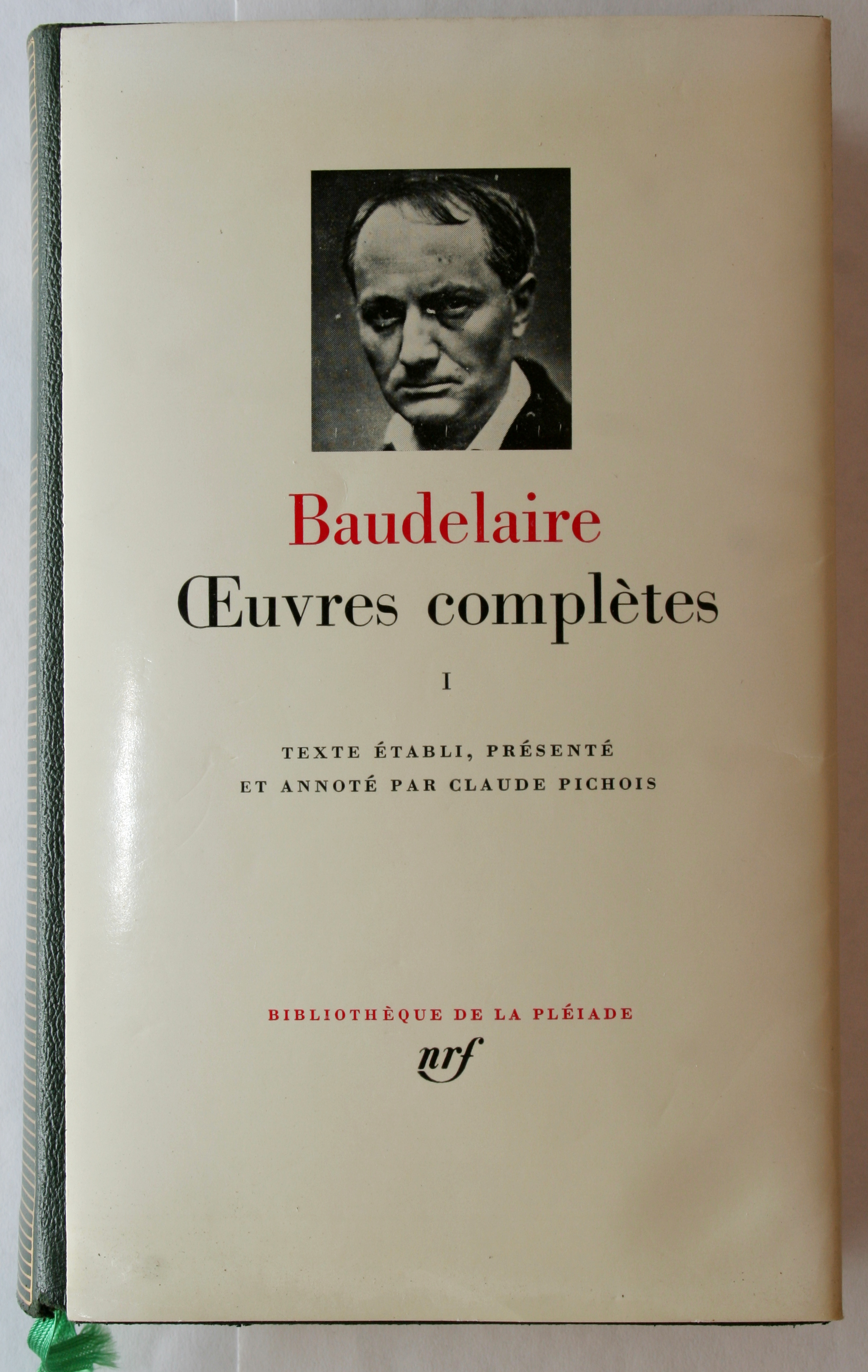 Baudelaire, published by Gallimard, collection La Pléiade, Complete Works, volume I, cover. 1975 edition. Picture by Carjat (1862).